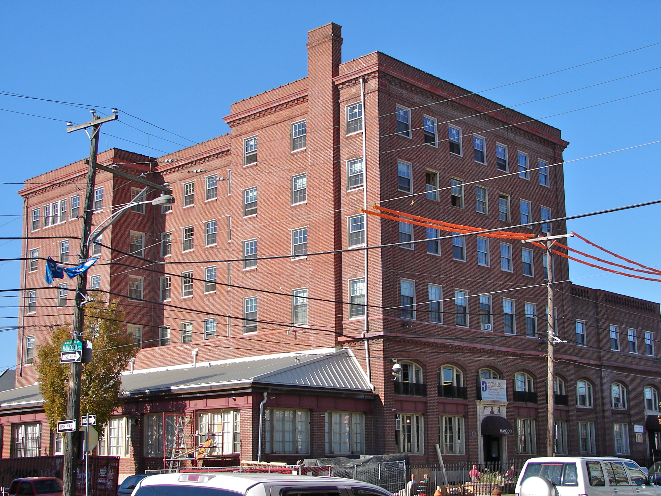 Kensington Branch of the Philadelphia YWCA on the NRHP since March 9, 1990. At 174 West Allegheny Ave. in the Hugh neighborhood of North Philly. Built in 1911 the YWCA provided an inexpensive cafeteria, simple "hotel" rooms, day care, classes relevant to the local textile industry, and a swimming pool. Now being reconstructed as apartments or condos.